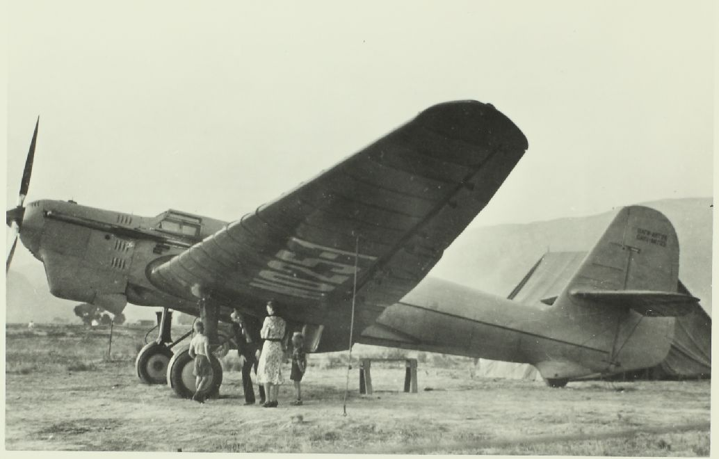 Catalog #: 01_00088991 Manufacturer: Tupolev Designation: ANT-25 Notes: USSR Repository: San Diego Air and Space Museum Archive Tags: Tupolev, ANT-25, USSR